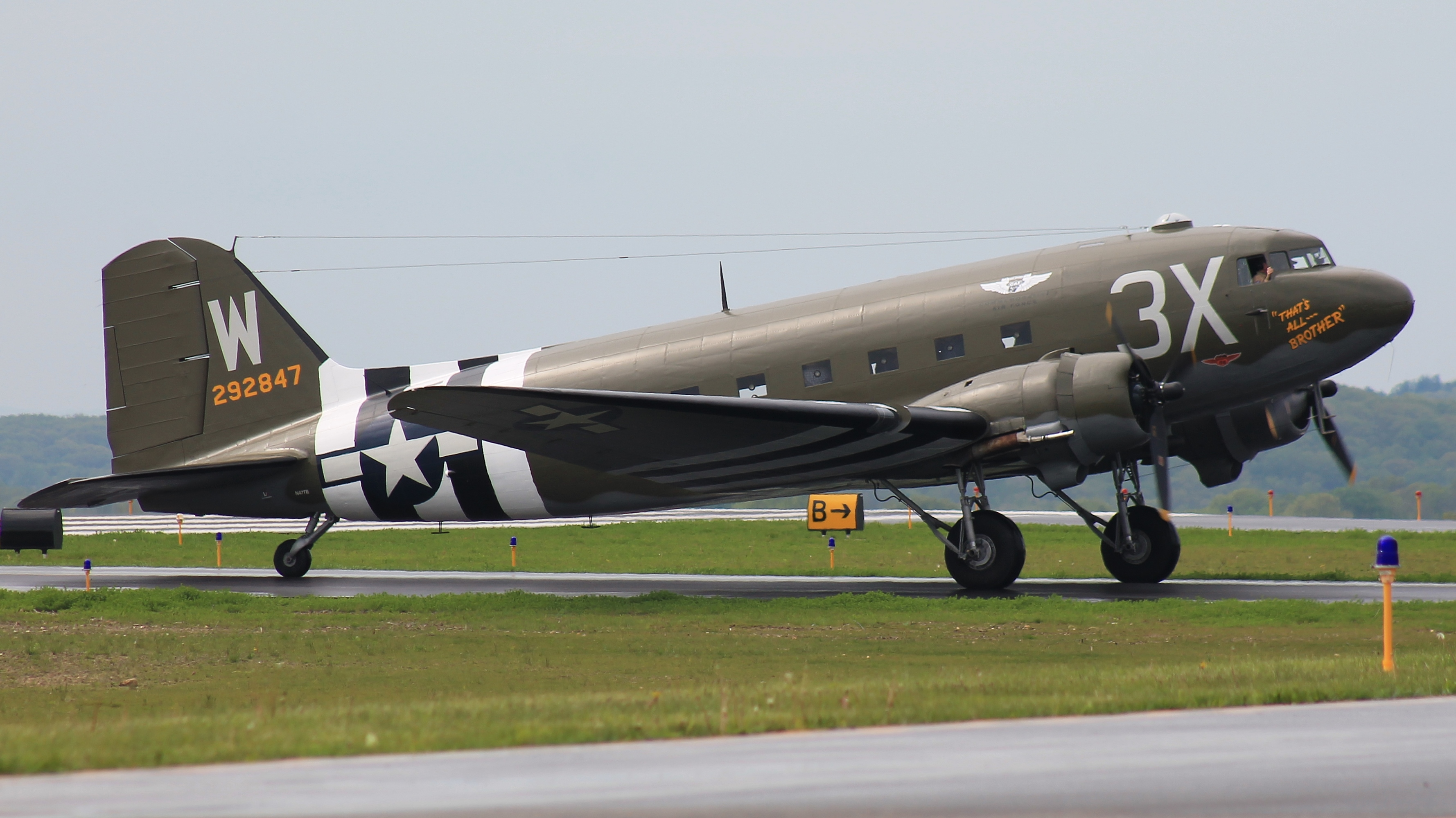 C-47 Skytrain "That's All, Brother" taxiing at Oxford Airport in Connecticut, during the D-Day Squadron kickoff week on 17 May 2019.